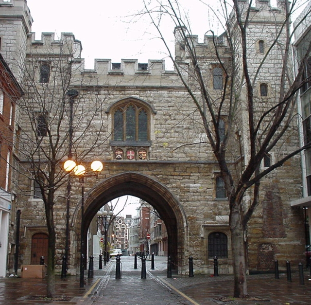 Photo taken by lonpicman St Johns Gate Taken from St Johns Square Clerkenwell, London